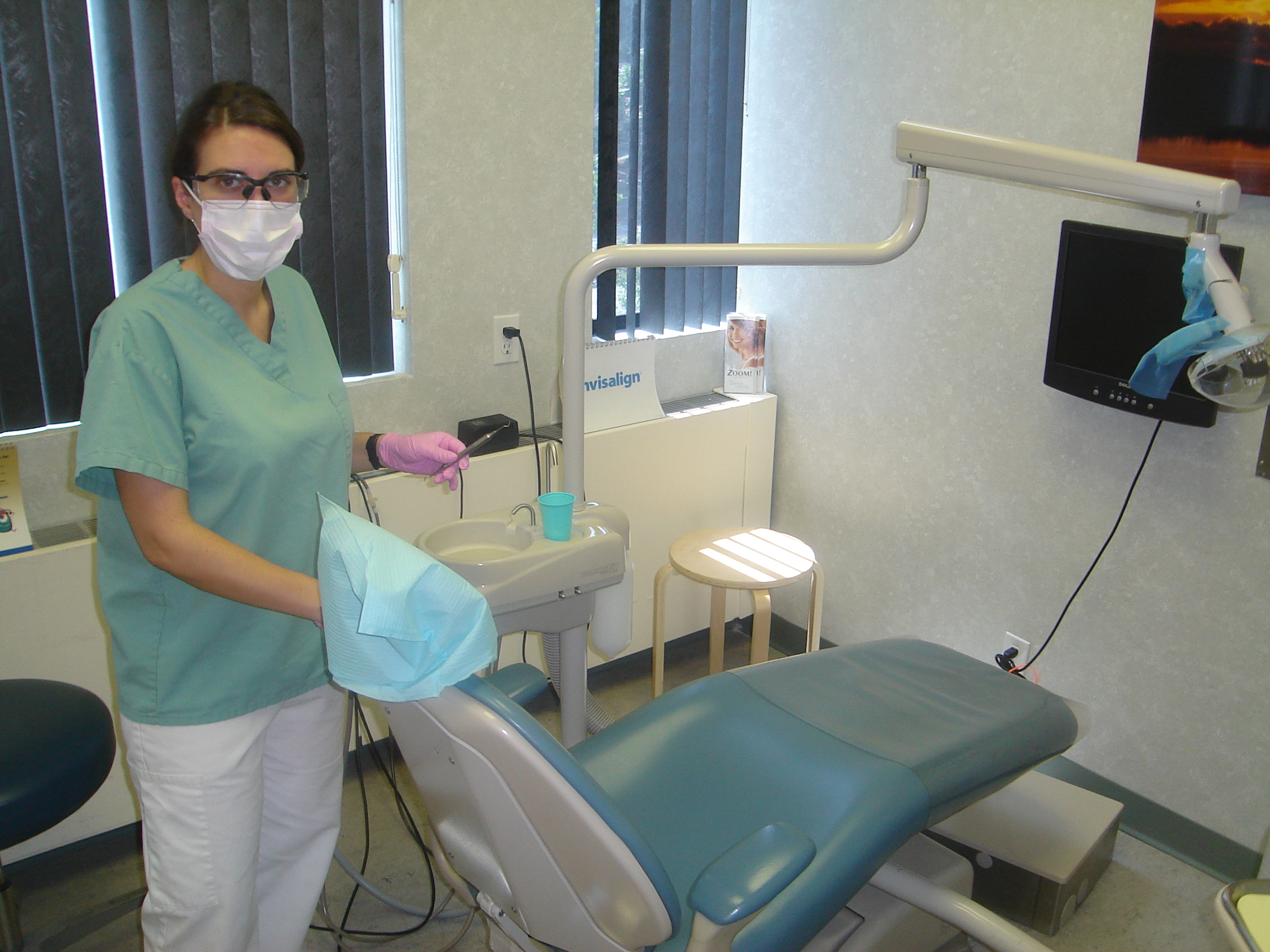 Dental Hygienist